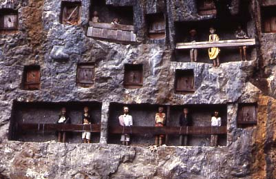 Toraja burial site. Toraja is an ethnic group in West and South Sulawesi, Indonesia